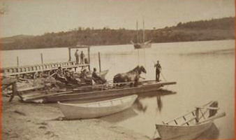 "Old Cabinet Photo Castine Brooksville Ferry Maine. Back has a hand written message that this is a Ferry between Castine and Brooksville. A.H. Folsom Photographer of Roxbury, Mass is stamped on the back."